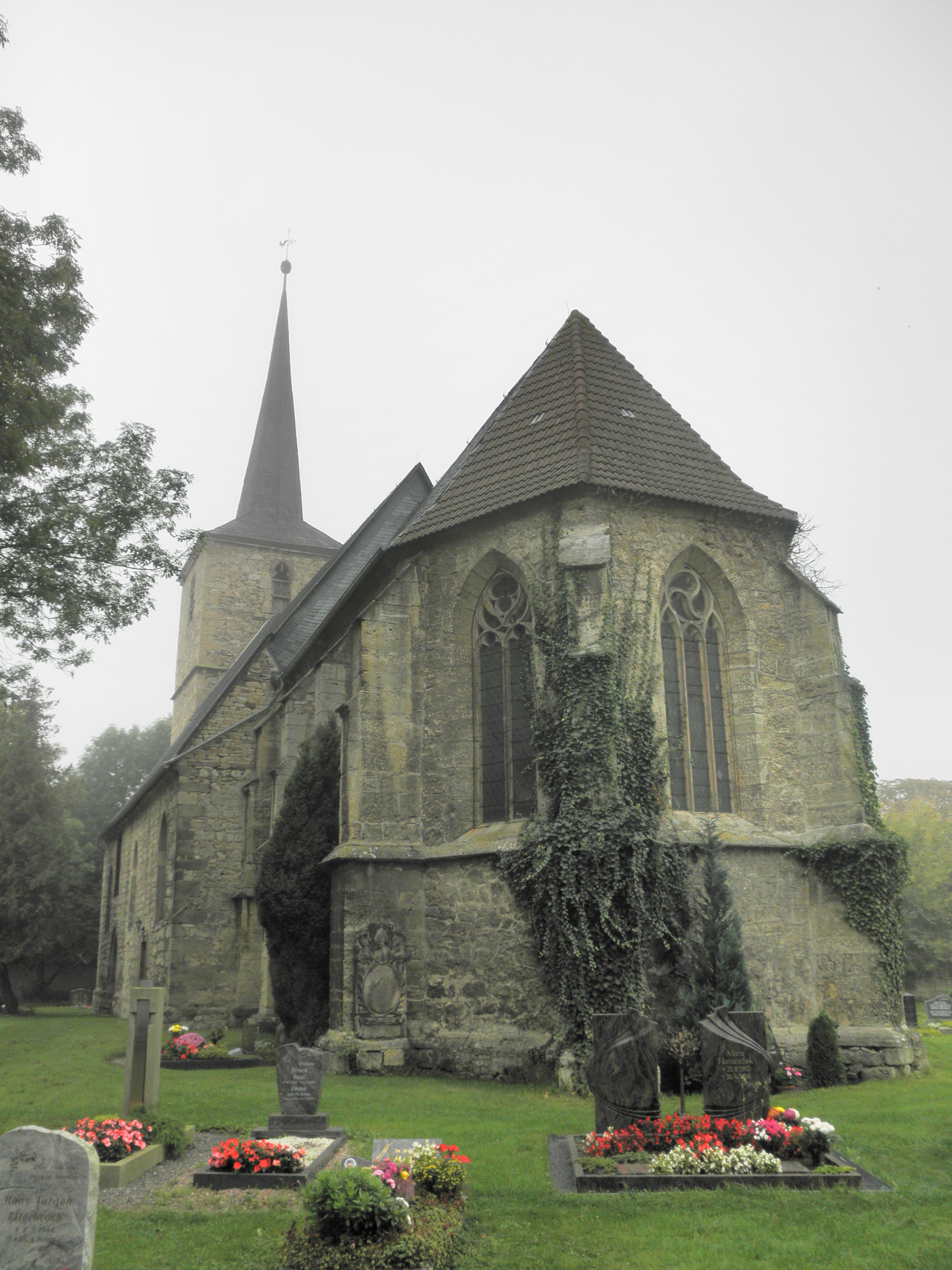 Church in Gorsleben in Thuringia